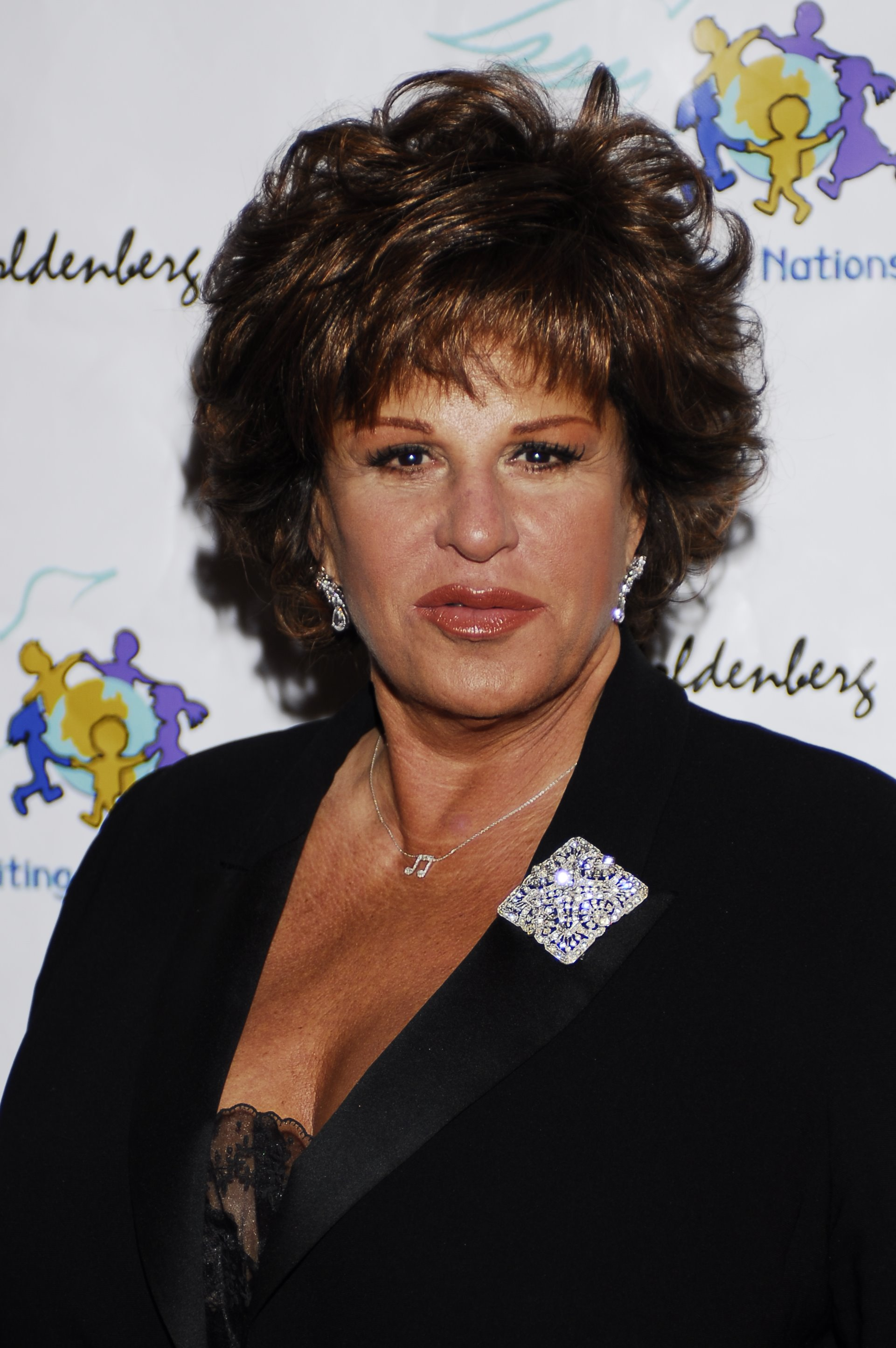 Lainie Kazan at the 79th Annual Academy Awards Children Uniting Nations/Billboard afterparty.